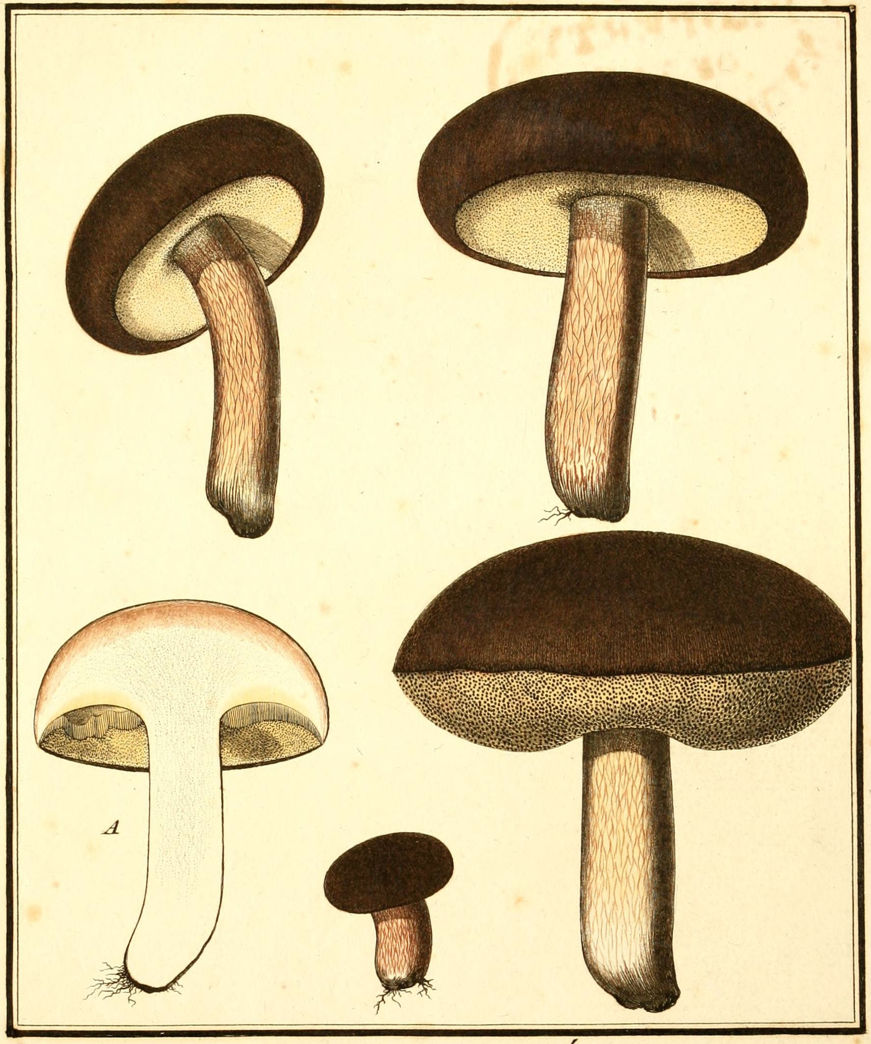 The "bronze bolete", Boletus aereus, as depicted in Jean Baptiste Francois Bulliard's 1789 "Champignon de la France".